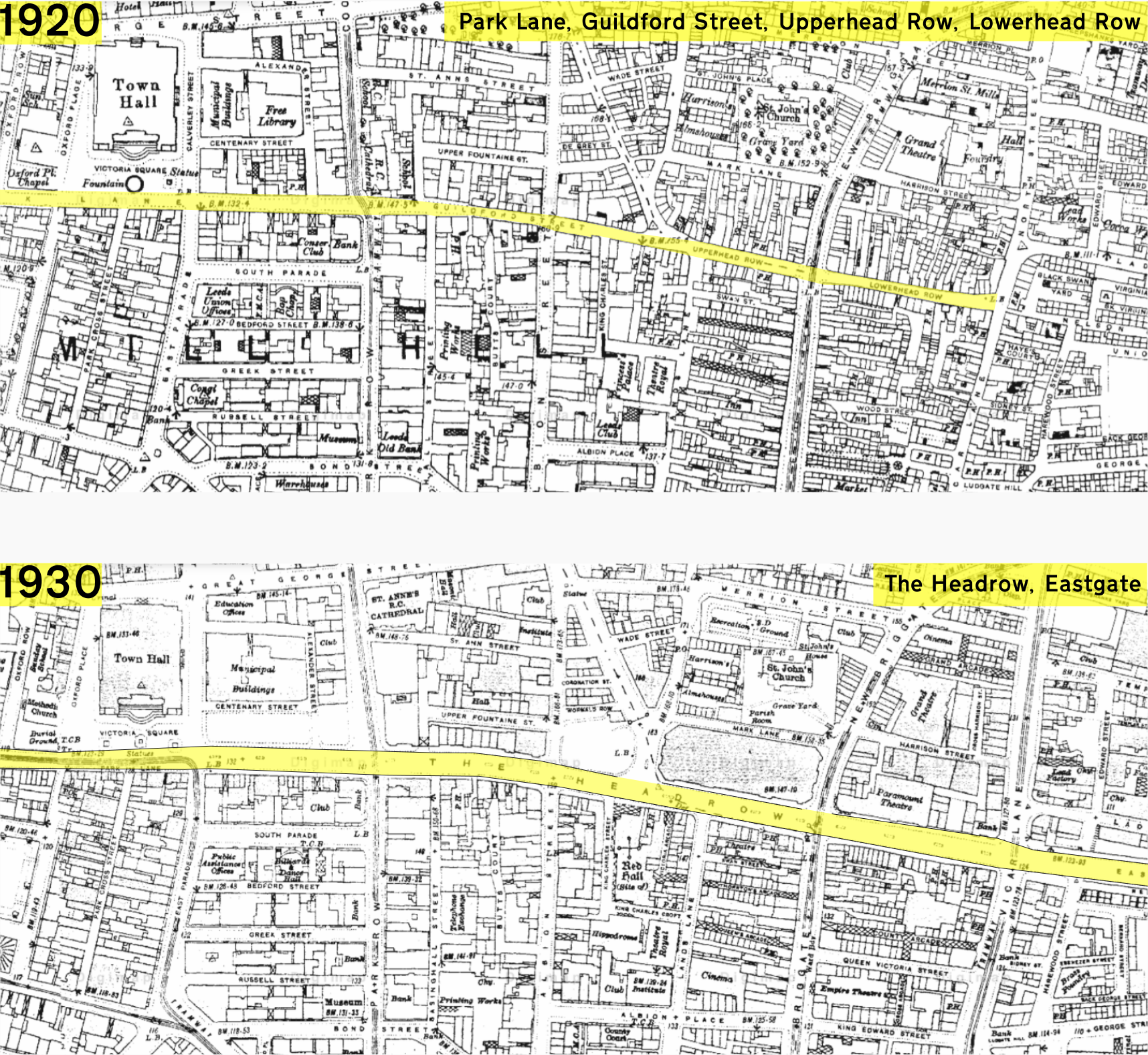 Route of the Headrow highlighted on maps from 1920 and 1930, showing its creation and widening.